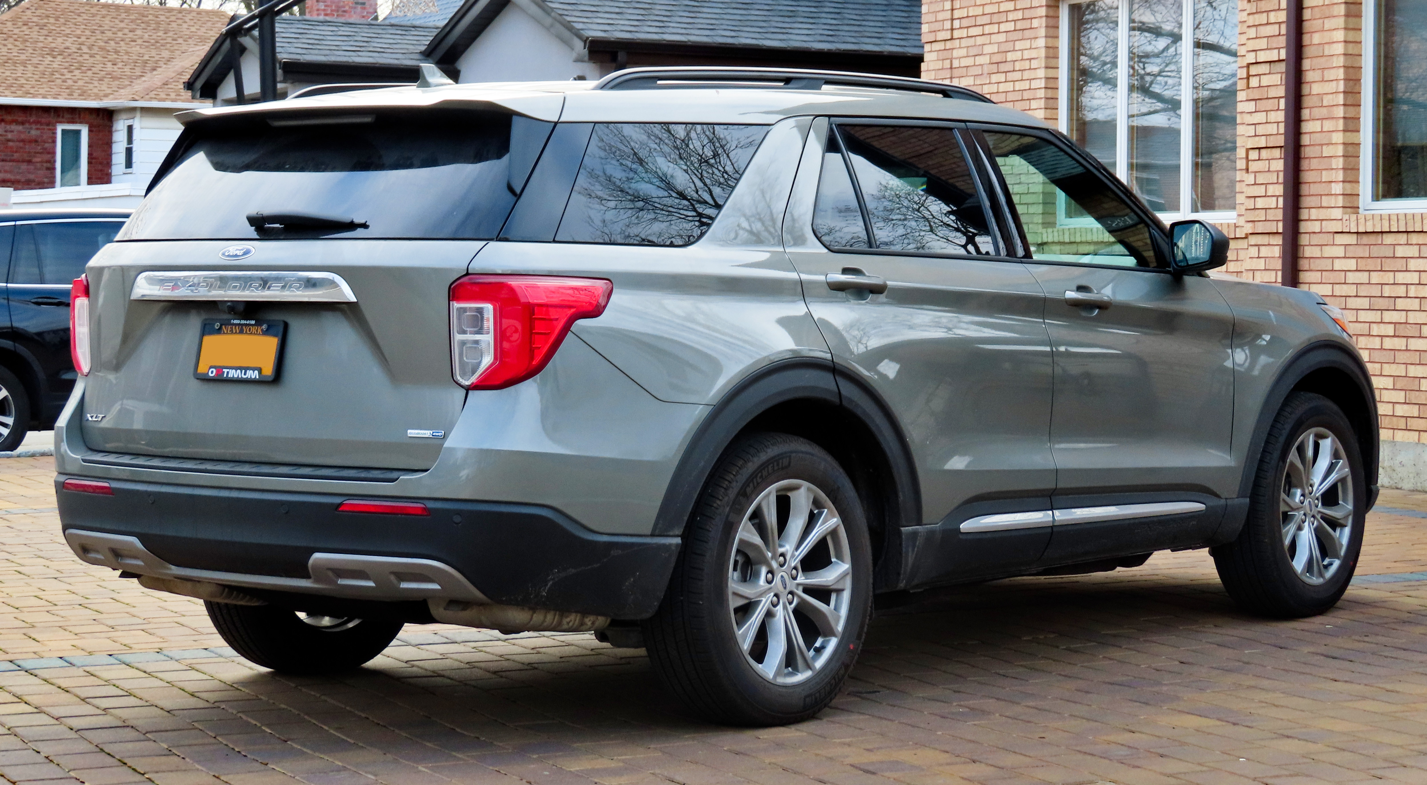 A 2020 Ford Explorer XLT photographed in Kew Gardens Hills, Queens, New York, USA